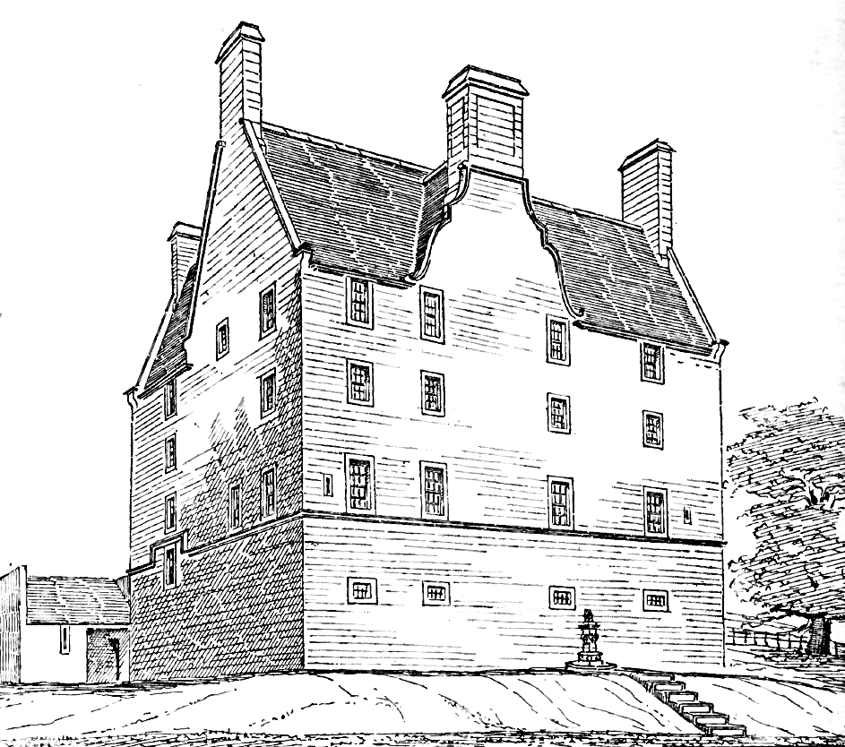 Pitreavie Castle, near Dunfermline, Fife, Scotland. The 17th century south front drawn in the 19th century, prior to the remodelling of the house in 1885.